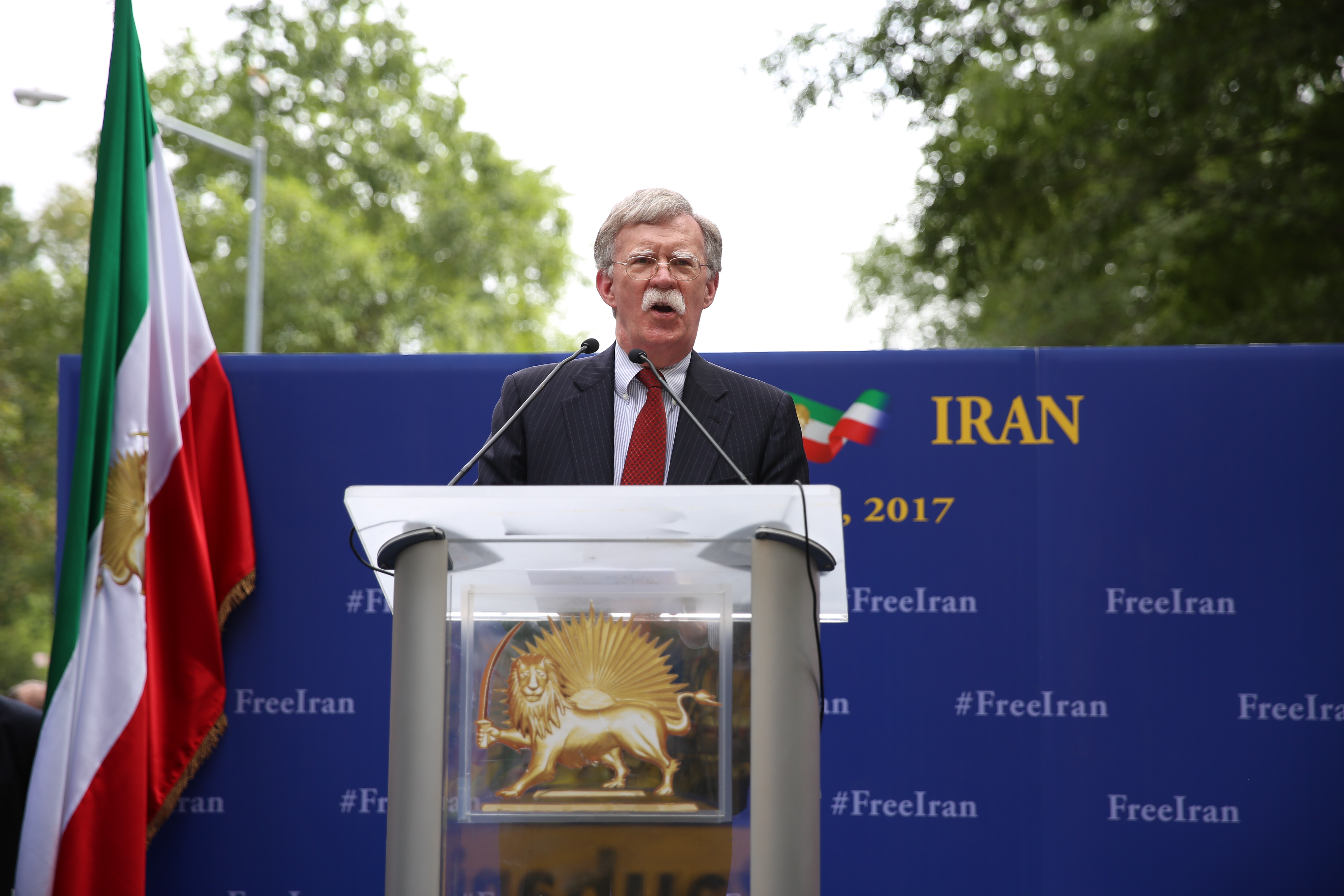 John Bolton, speaking atthe gathering of the People's Mujahedin of Iran in front of headquarters of the United Nations, New York City